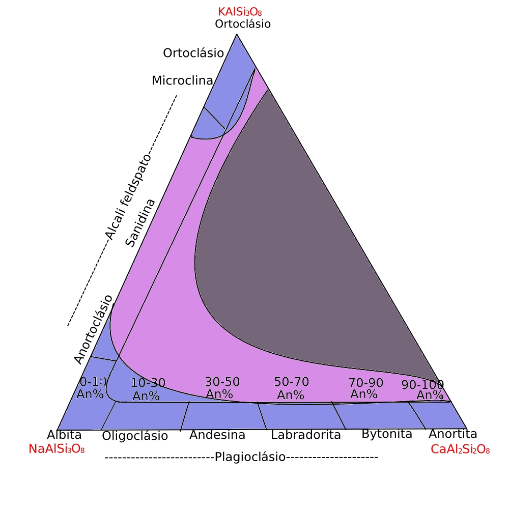 Feldspar stability fields Description: Gray field: no feldspars; pink field: feldspar stable at high temperature only; Blue field: feldspar stable at low temperature only Created: Dez 2005, Brazil Owner: Eurico Zimbres FGEL/UERJ Free for all use